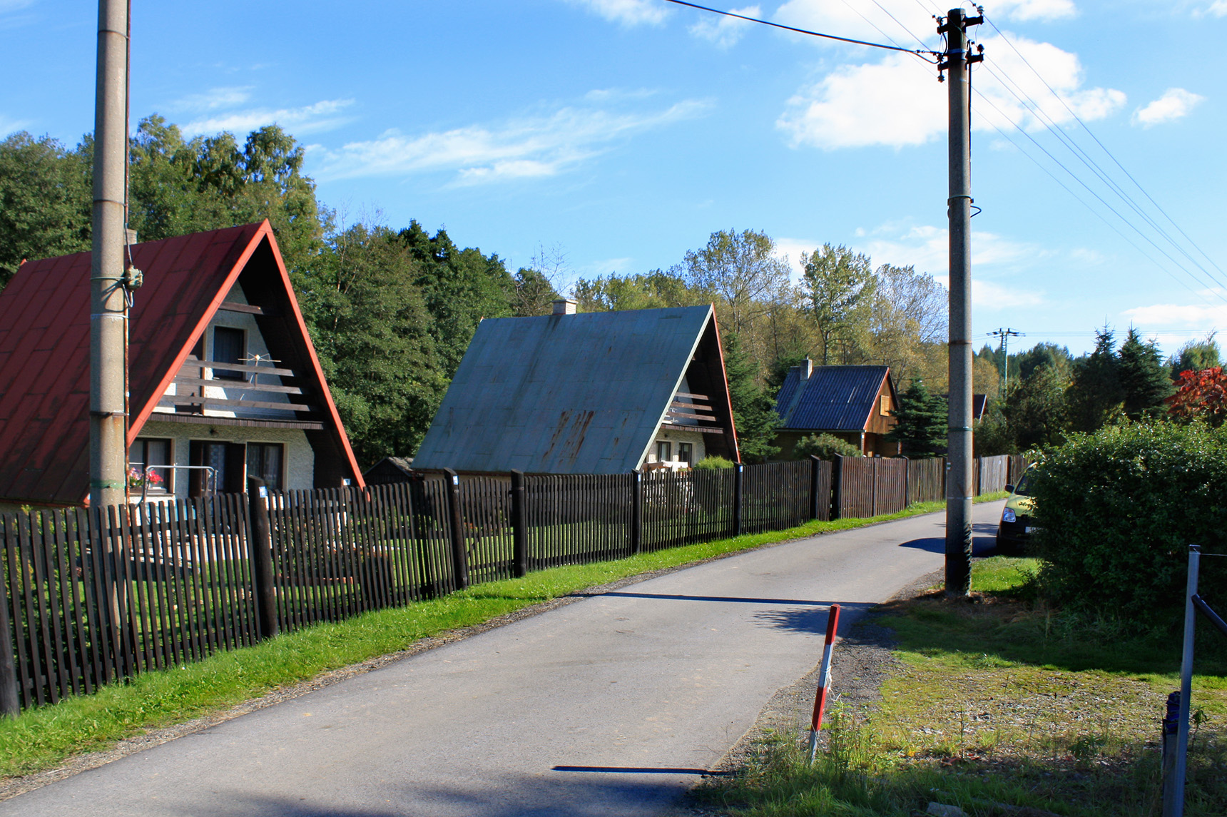 Houses in the south part Víska, part of Chrastava, Czech Republic